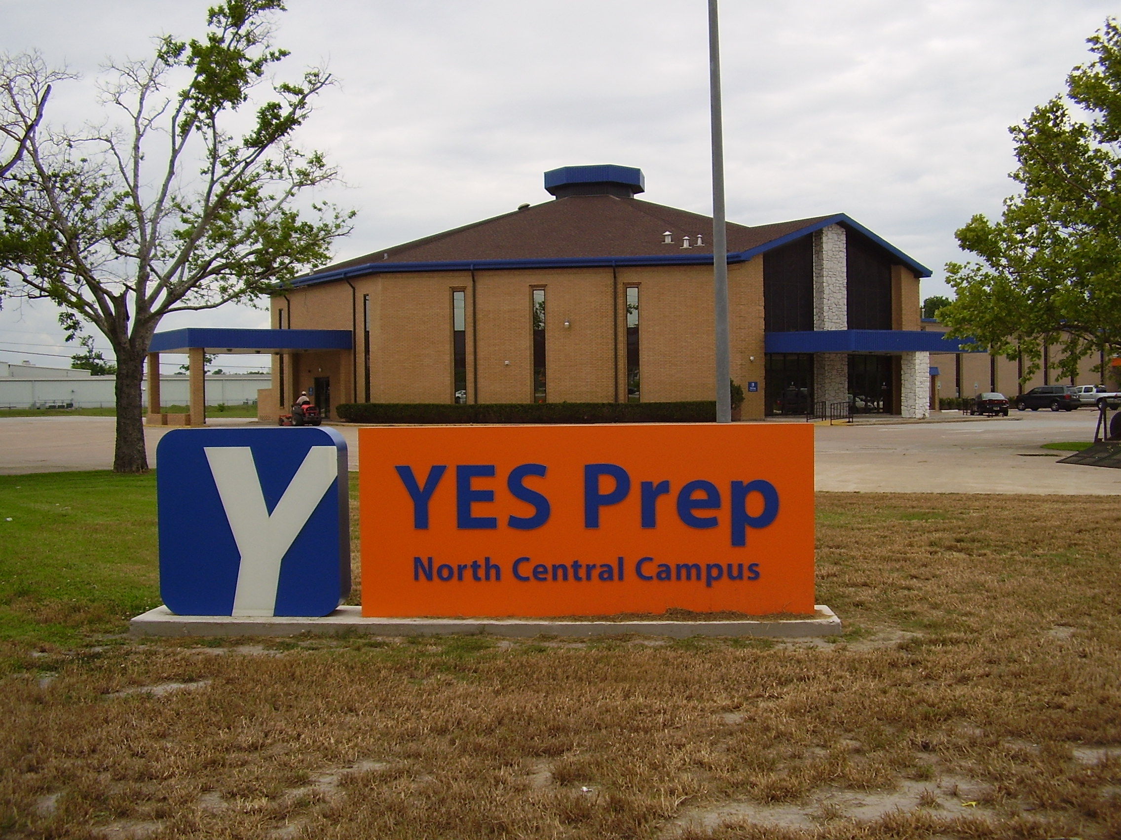 YES Prep North Central Campus